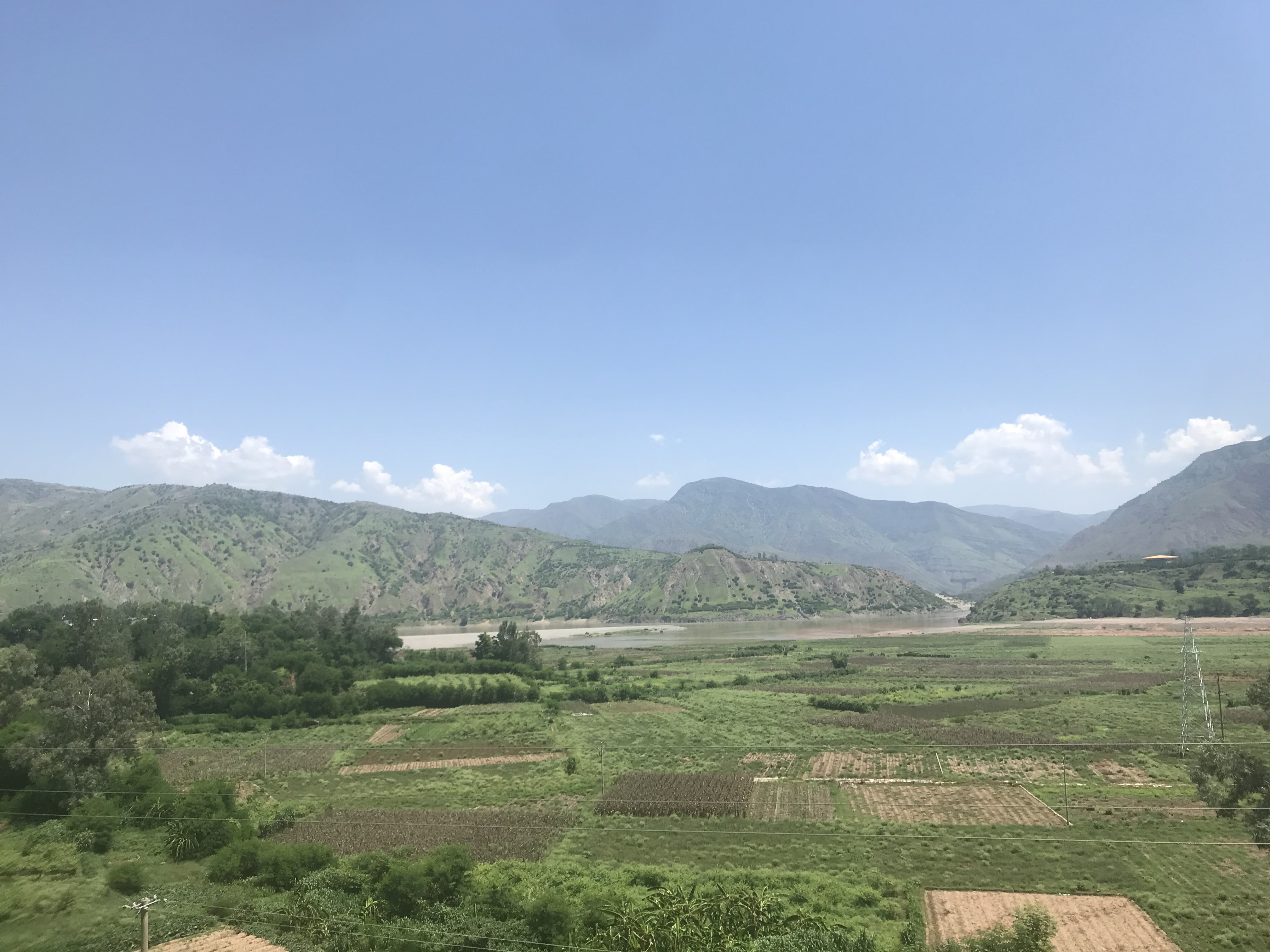 201908 Confluence of Longchuan River and Jinsha River